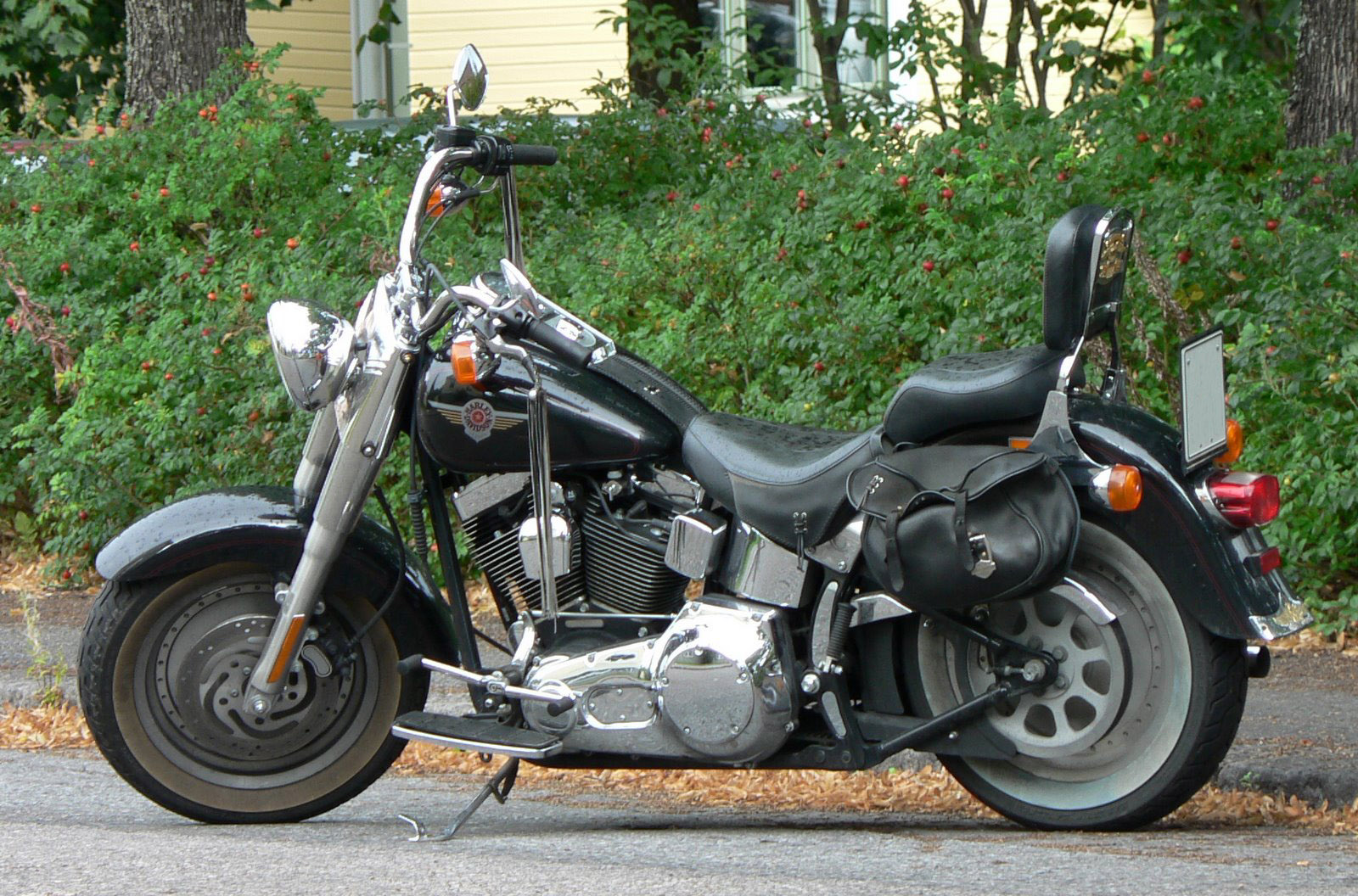 Harley-Davidson motorcycle